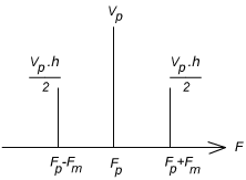 AM spectrum